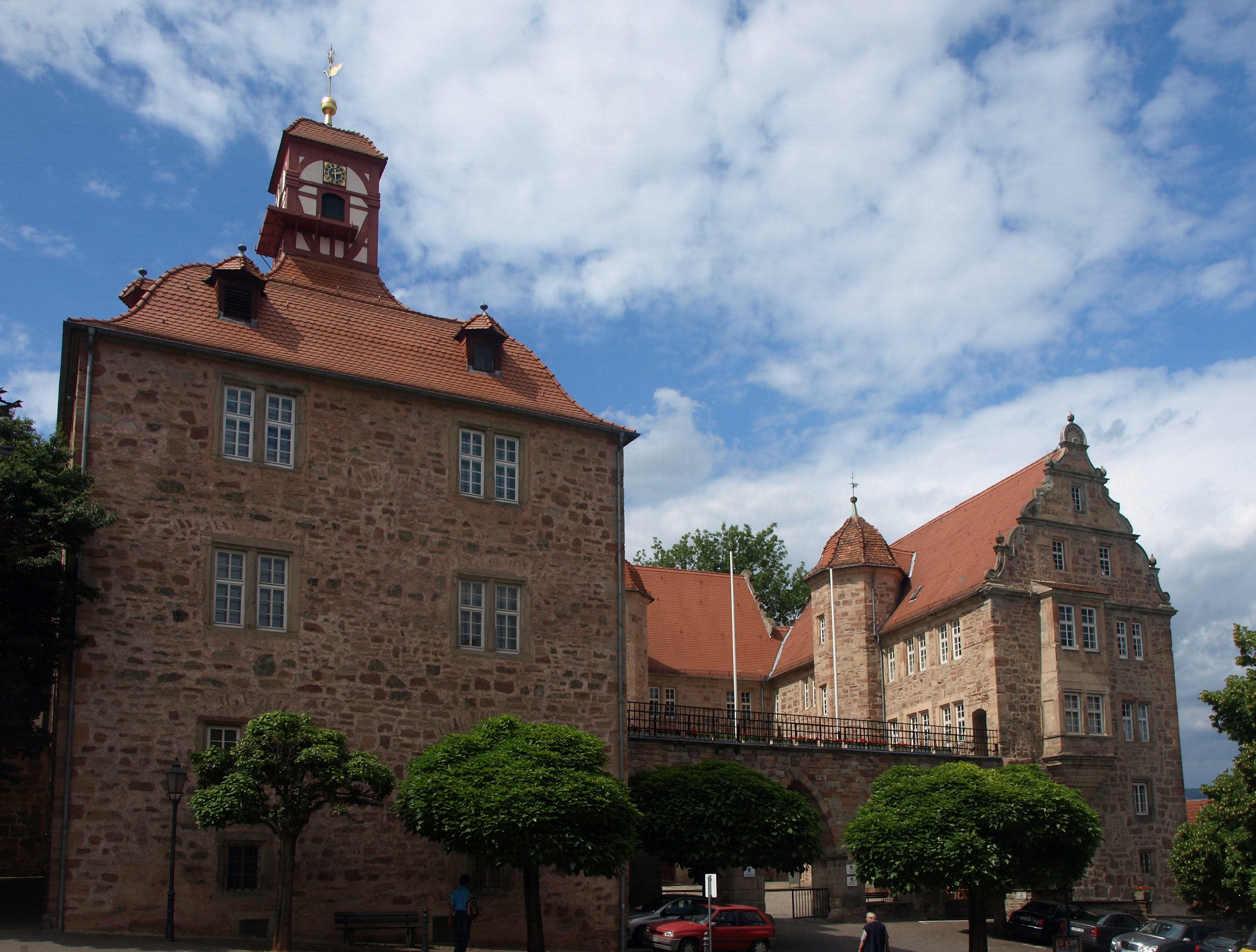 east facade of the castle Eschwege)